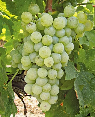 Ντεμπίνα